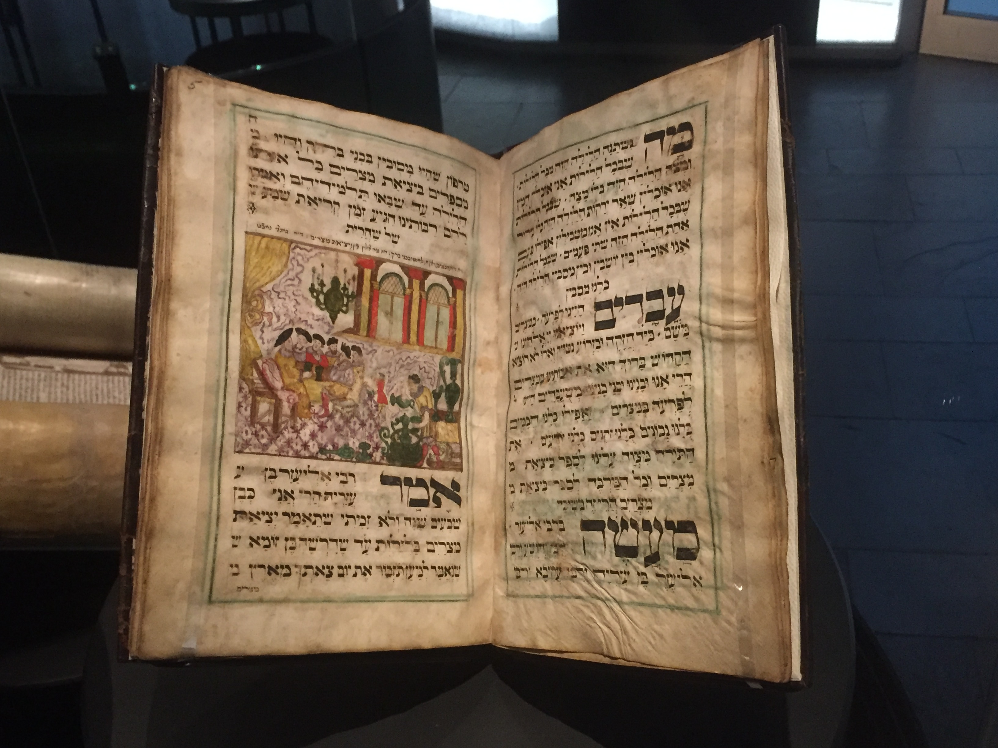 Aus dem Museum Judengasse Frankfurt am Main. Pergament, Tinte, Wasserfarben. Schenkung von Ignatz Bubis